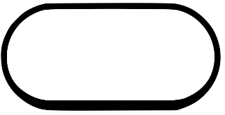 Mapa do Dover International Speedway